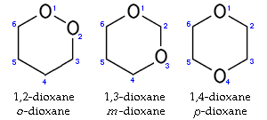 Structures of three dioxane isomers with nomenclature and common names